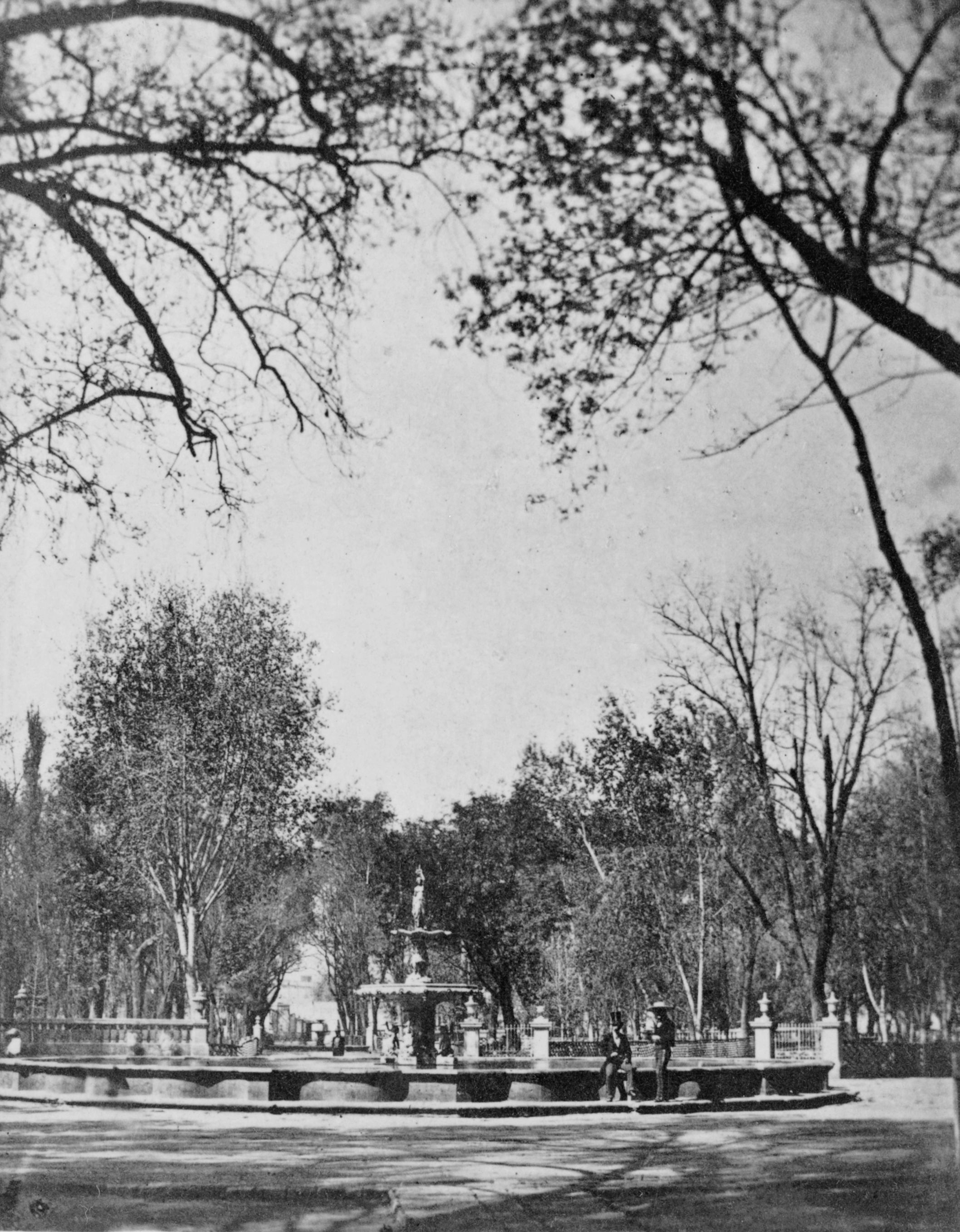 Fountain surrounded by benches in the Alameda Central park, Mexico City, Mexico